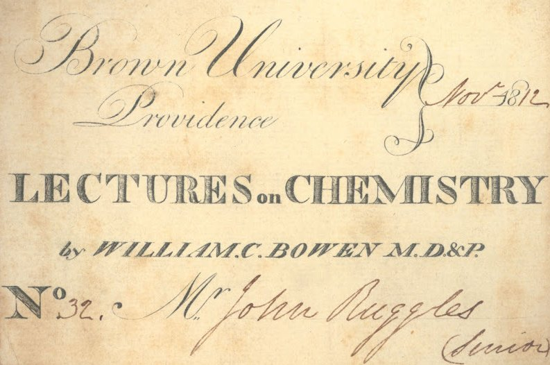 Cover of Dr. William Corlis Bowen's textbook, "Lectures on Chemistry" (c. 1812), for students of Brown University Medical School during the early 19th century.